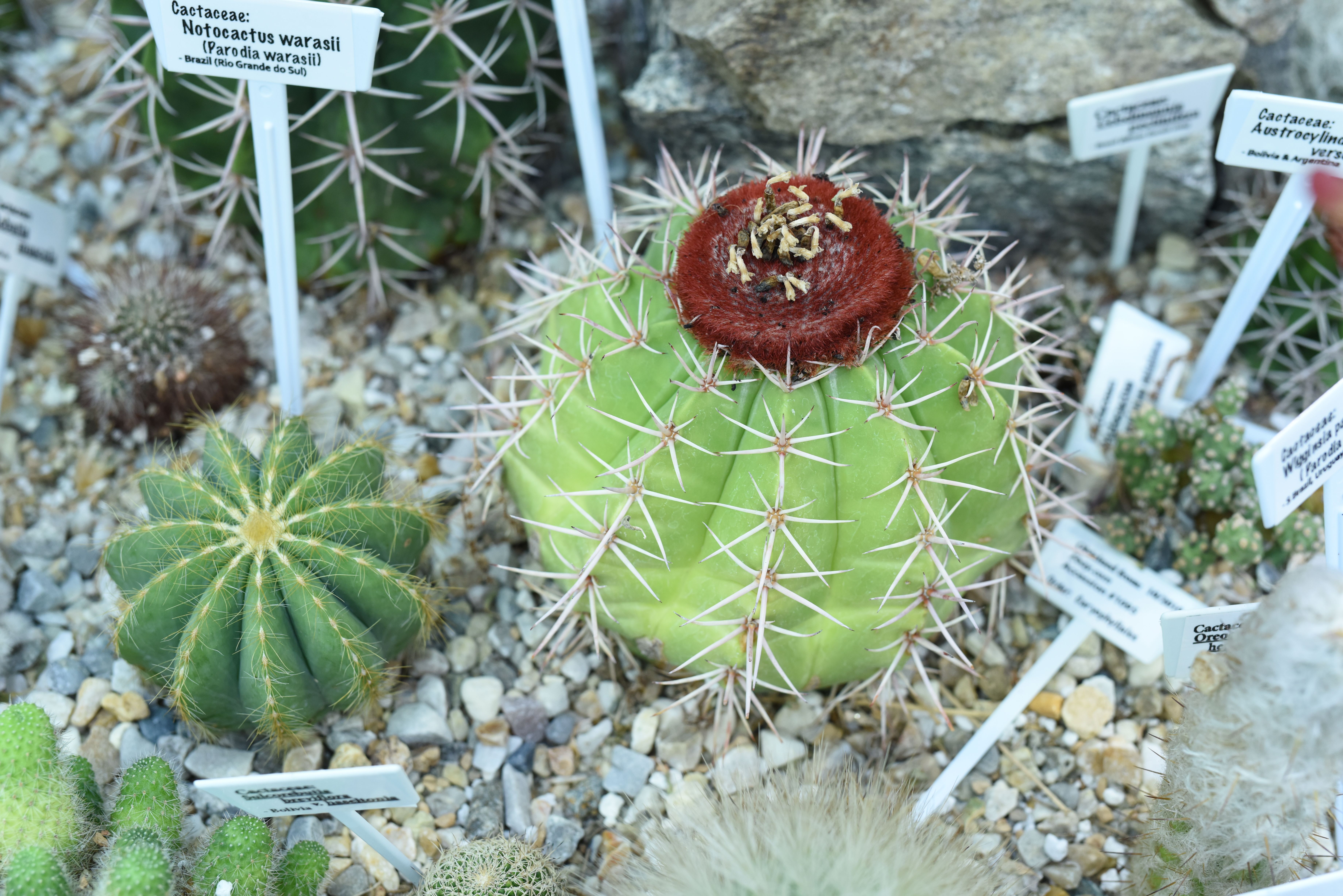 Cactaceaeː Wigginsia Pauciareolata at Marsh Botanical Garden. Native to the middle region of South America.